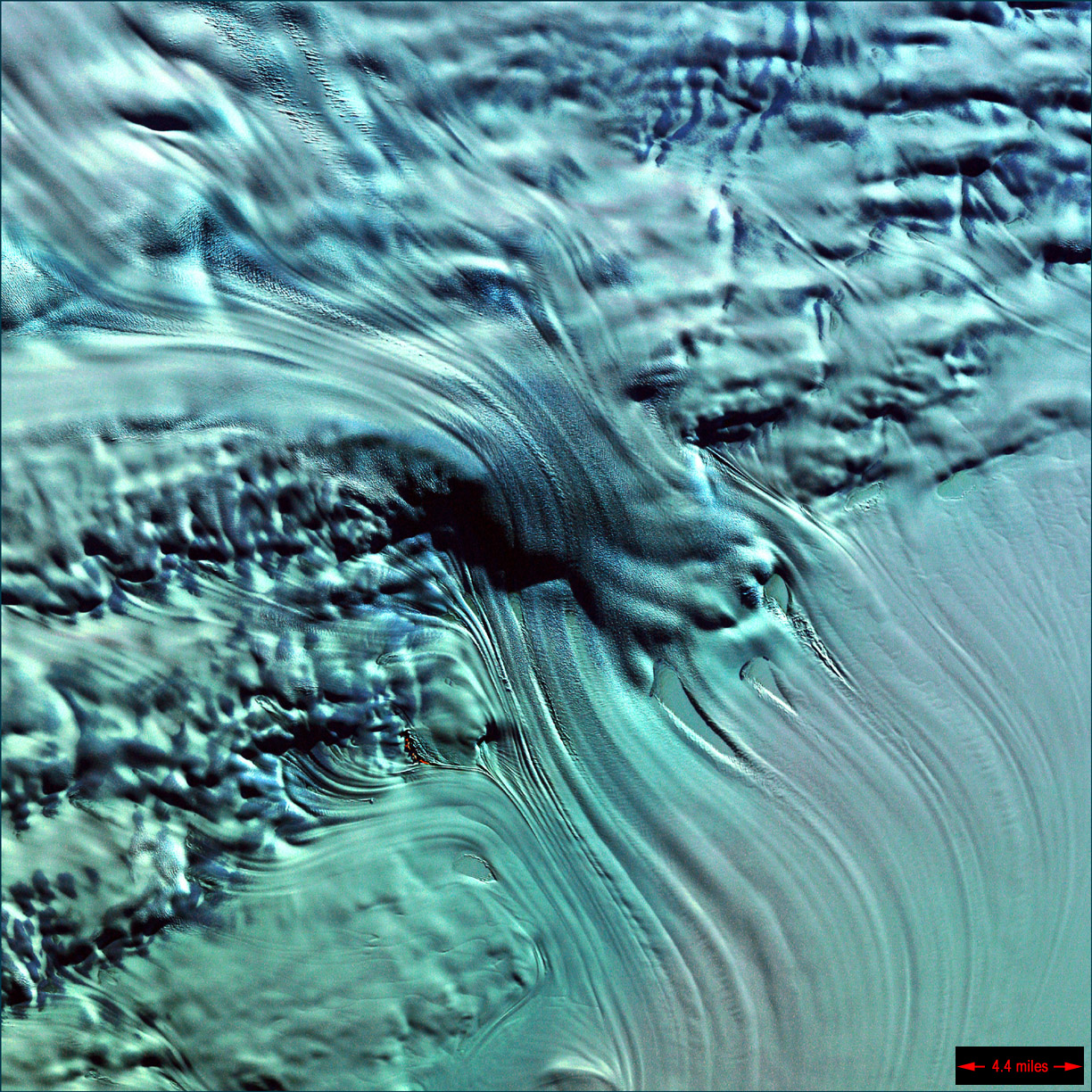 Icefall, Lambert Glacier, Antarctica. From the image page: "The Lambert Glacier in Antarctica, is the world's largest glacier. The focal point of this image is an icefall that feeds into the Lambert glacier from the vast ice sheet covering the polar plateau. Ice flows like water, albeit much more slowly. Cracks can be seen in this icefall as it bends and twists on its slow-motion descent 1300 feet (400 meters) to the glacier below."